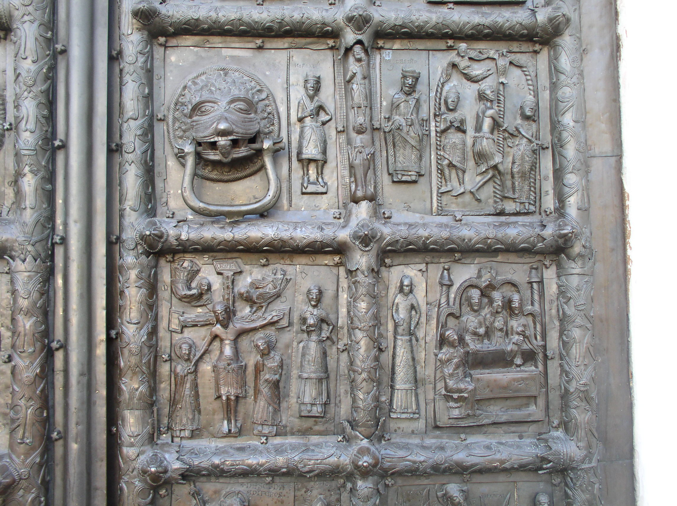 Main Gate of St. Sophia Cathedral (made in Magdeburg), Velikiy Novgorod, Russia